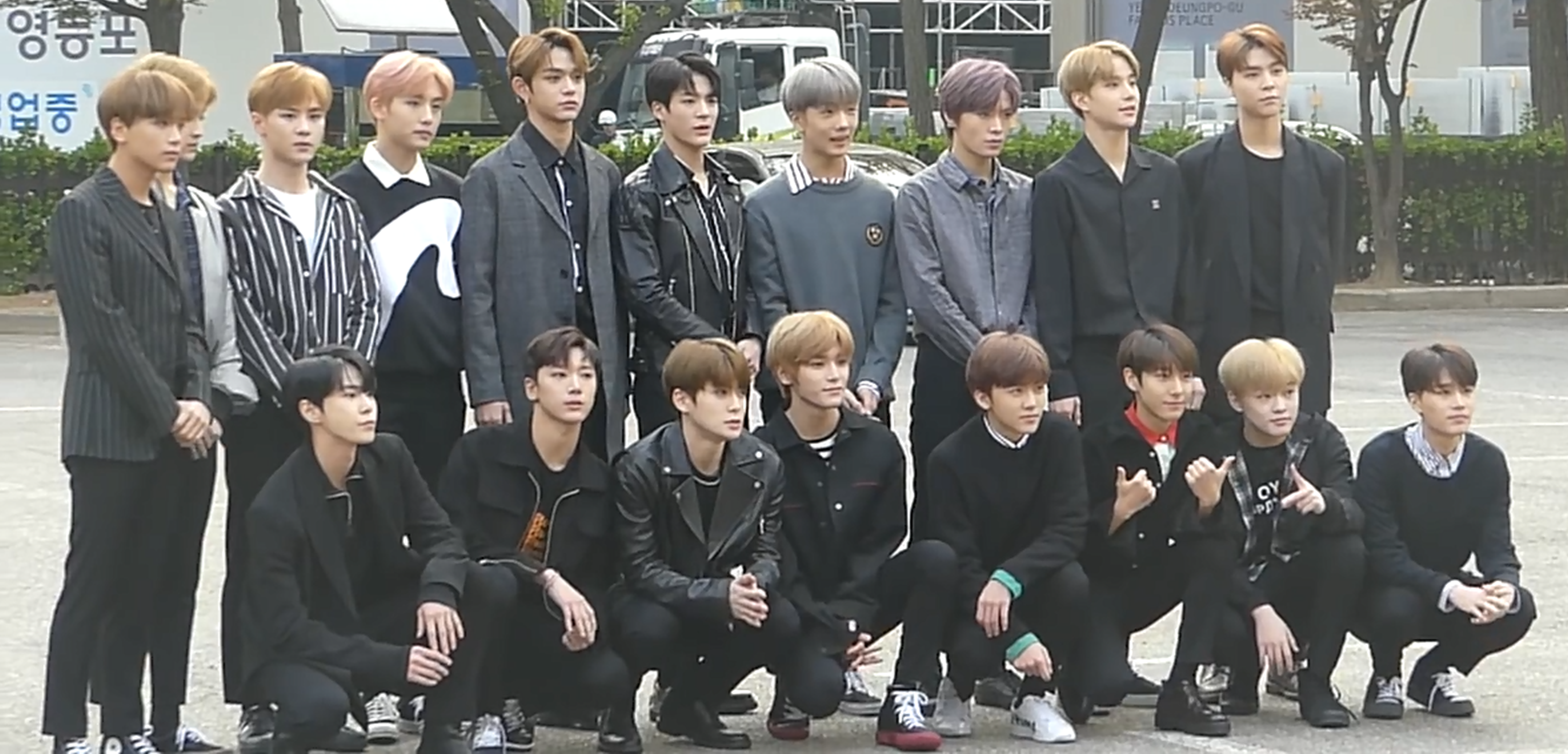 NCT going to a Music Bank recording on April 20, 2018.